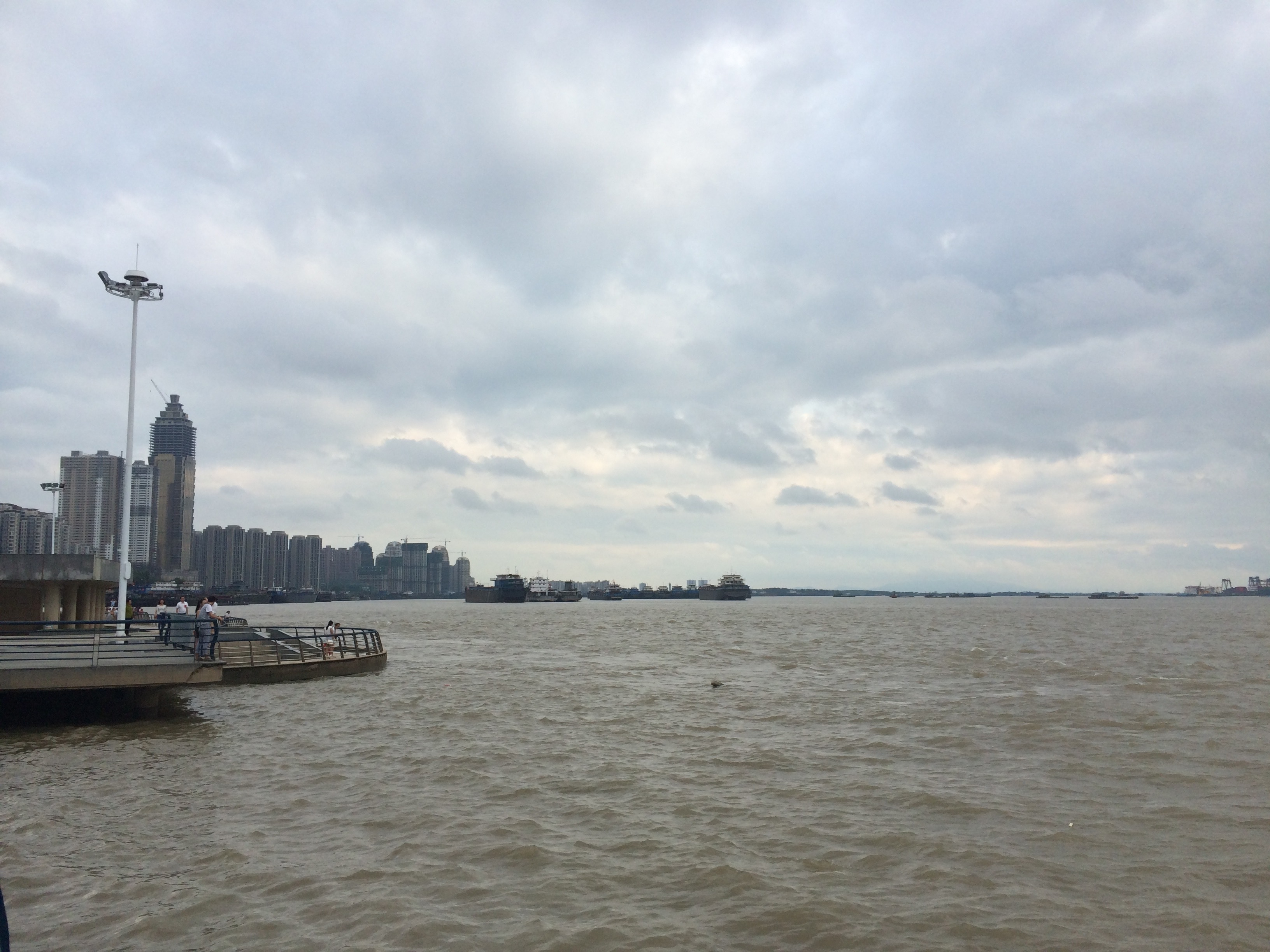 The Yangtze River flows through Wuhu City of Anhui Province.